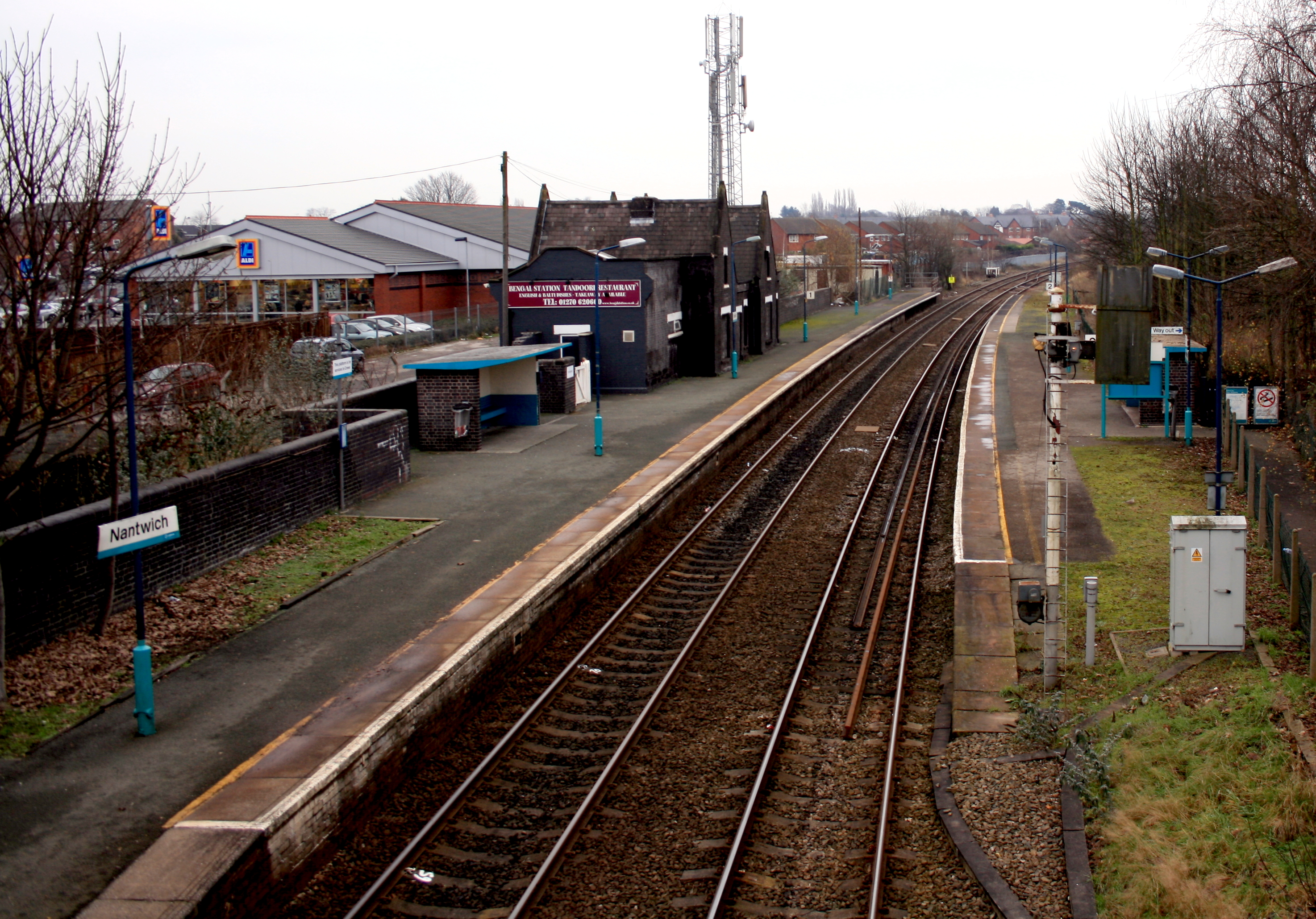 Nantwich Railway Station